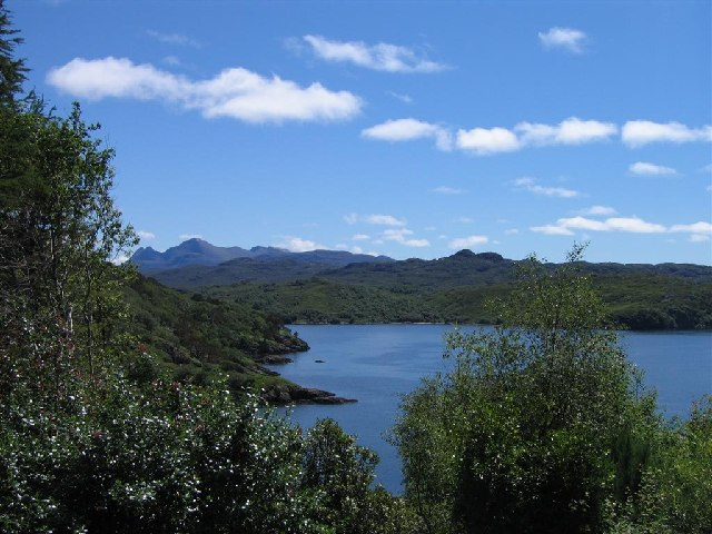 Loch Gairloch, from above Gairloch Harbour looking across the edge of Charlestown and inner Loch Gairloch. The summits of Beinn Alligin in Torridon are clearly seen.